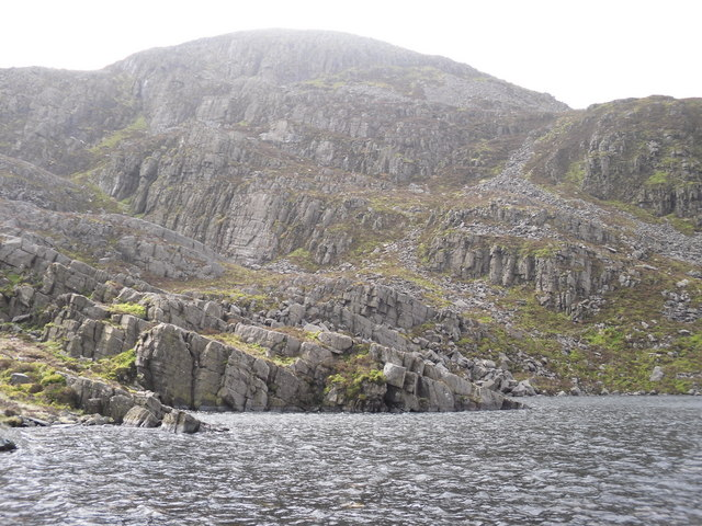 Llyn Du and Rhinog Fawr Photo showing the shattered rock face of Rhinog Fawr towering above the lake.